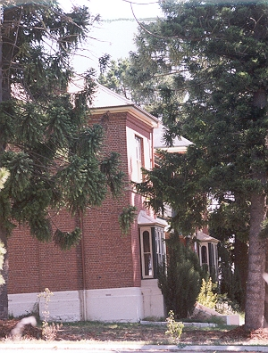 Llanarth (house)